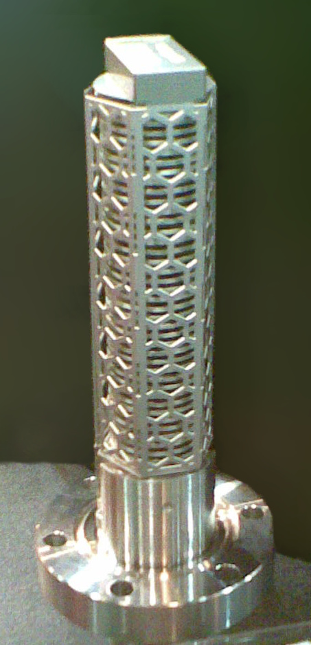 NEG Cartridge. Image has been digitally modified to remove background.